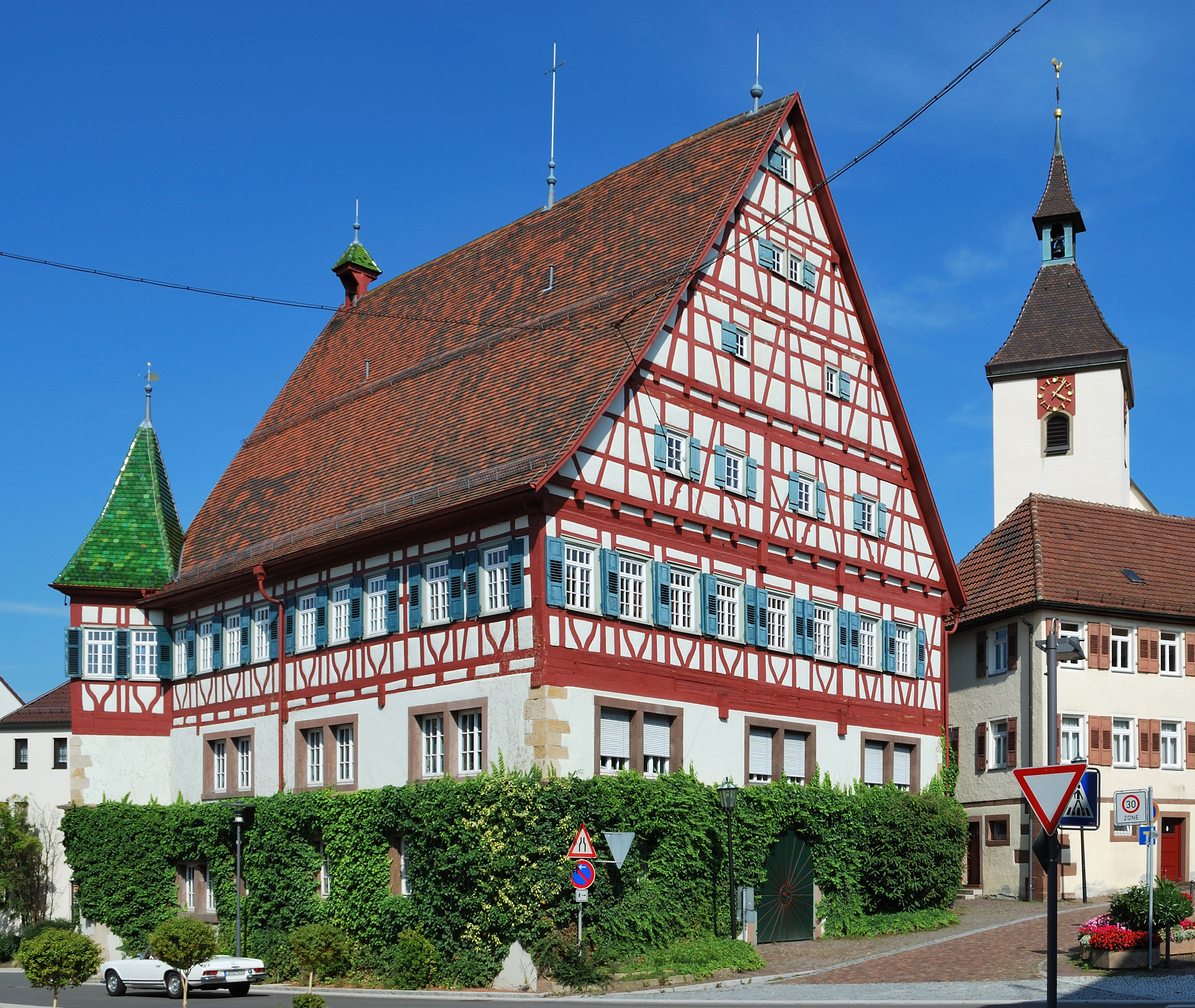 The municipal hall in Münchingen, Baden-Württemberg, Germany. The timber framed building from 1687 was rebuild in 1956/57. On the right side is seen the tower of the Johanneskirche.